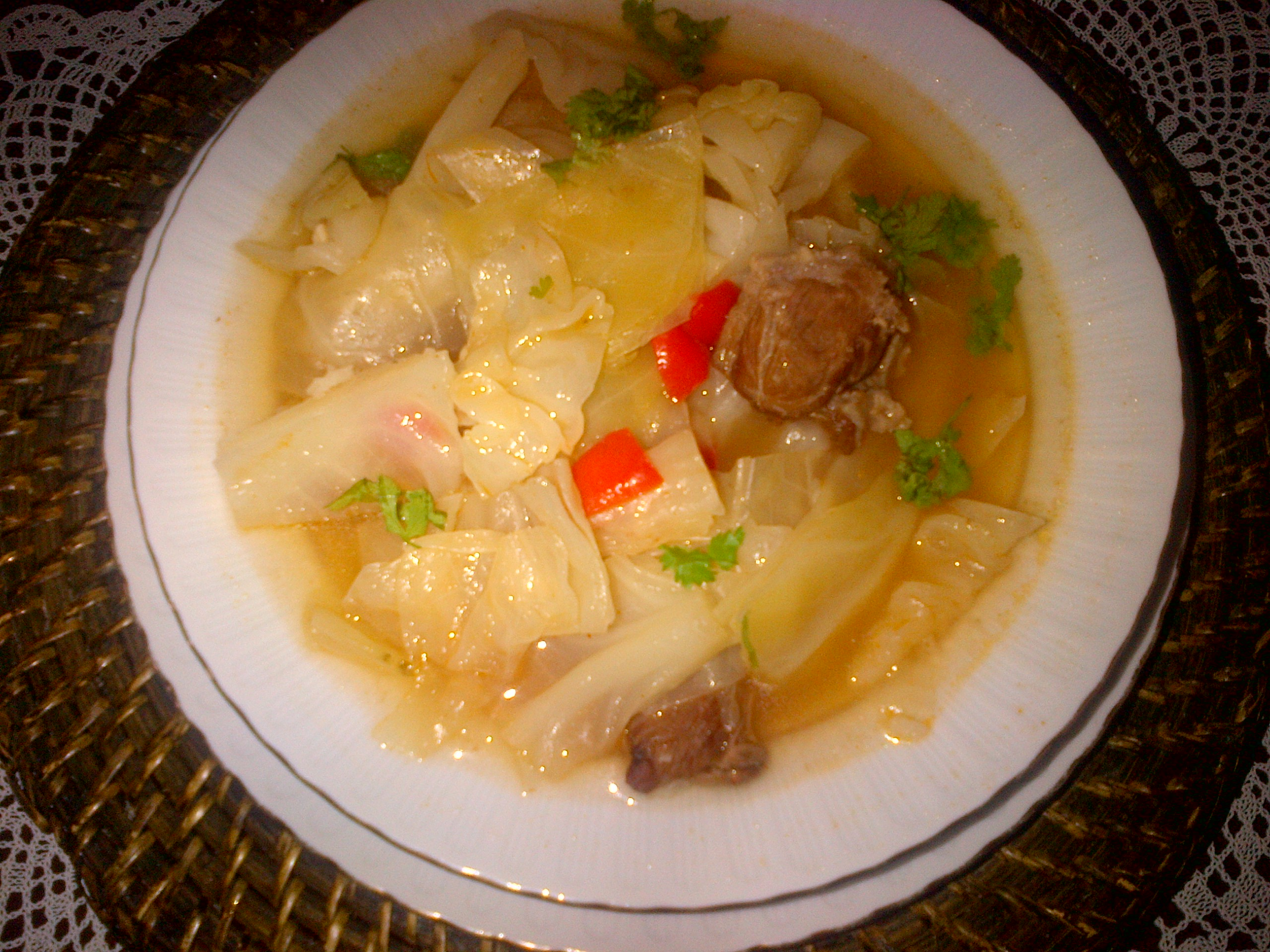 Turkish "kapuska" (cabbage stew) with "kuşbaşı" veal. ("Kuşbaşı" literally means bird's head and is the name of a certain meat cut.)